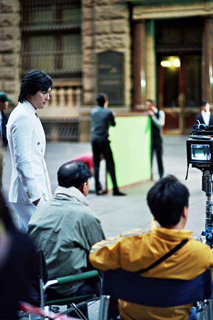 Korean actor Jung Woo-sung (in white, left of frame) on location in Sydney, May 2008. Photo by Mike Funnell (talk) 03MAY2008. Martin Place, Sydney, NSW, Australia. Konica Hexar RF, Leica Summilux 75mm, Kodak Gold 100.